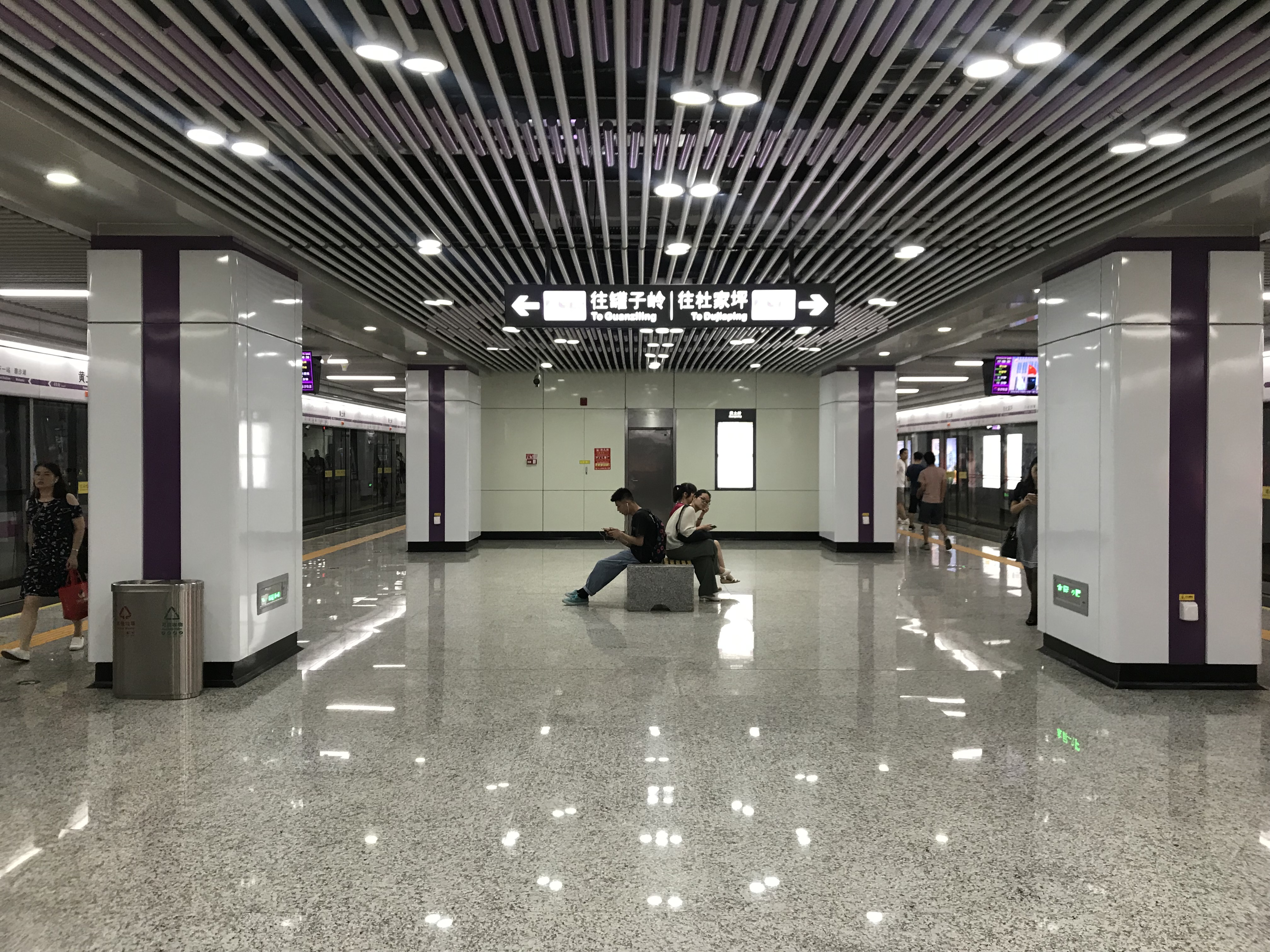 201906 L4 Huangtuling Station